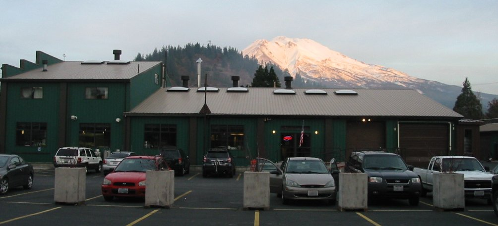 Mt. Shasta Brewing Company in Weed, Siskiyou County, California. Photographed in the evening with Mount Shasta in the background.